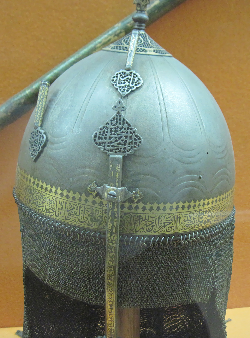 Helmet - Safavid dynasty - 17th century AD - Persian Safavid